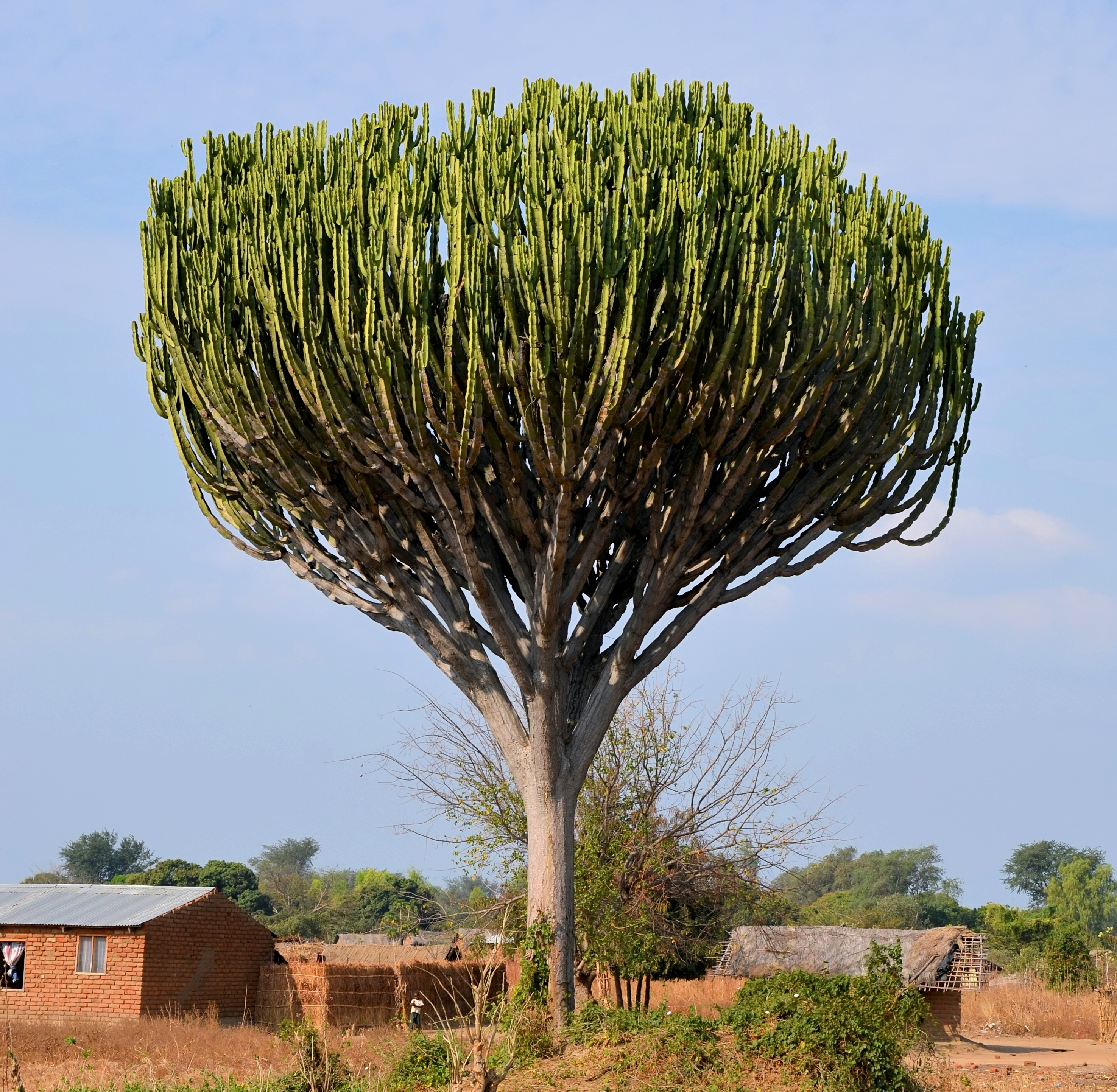 Common tree euphorbia between Monkey Bay and Mangochi, Malawi